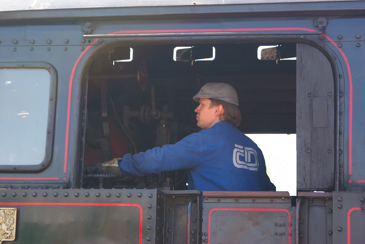 Czech locomotive driver in Wolsztyn, Poland (2009).